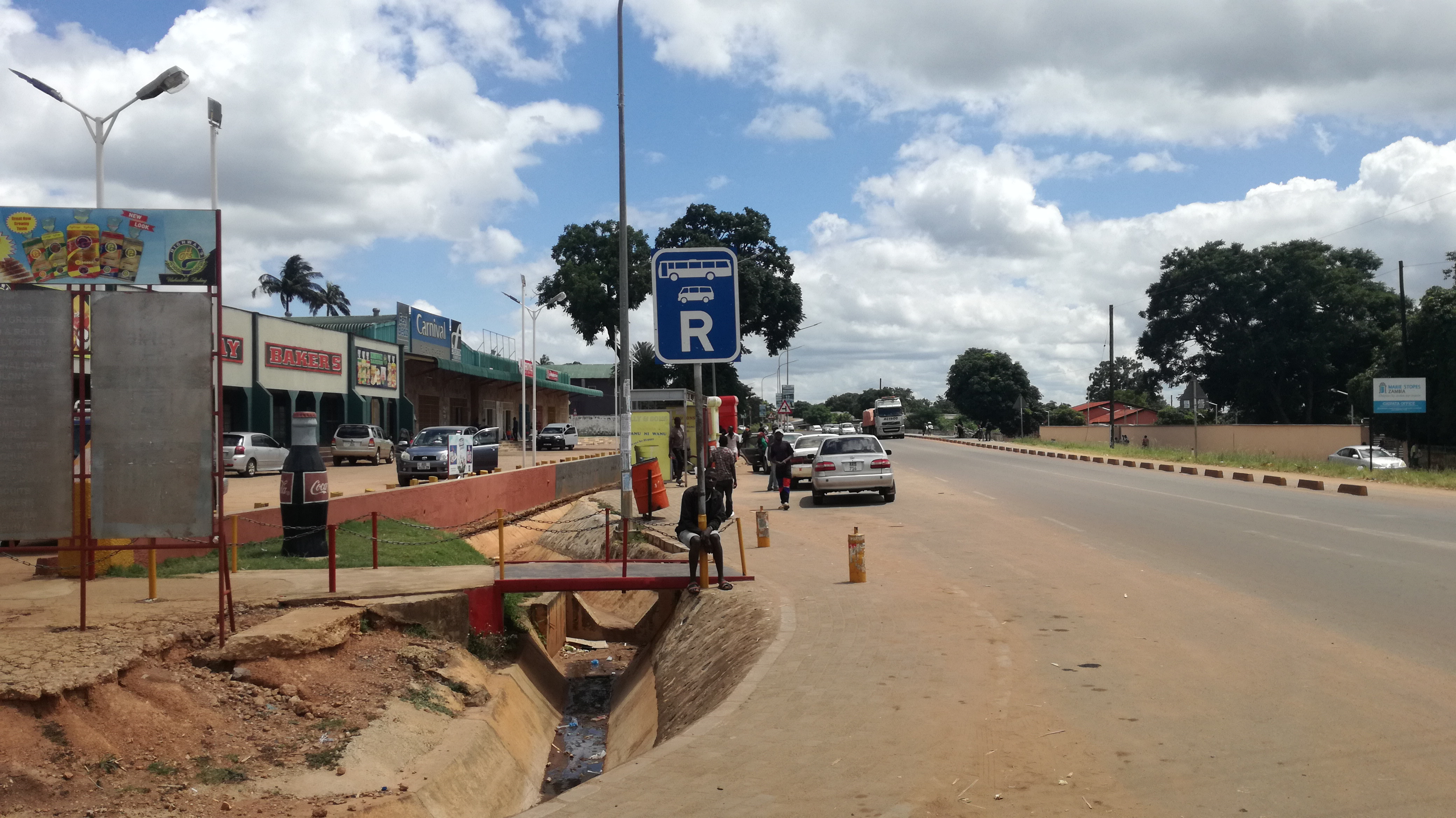 A bus stop sign in Chipata, Zambia This is an image with the theme "Africa on the Move or Transport" from: Zambia